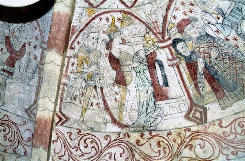 Bregninge Kirke (church) in Kalundborg Kommune